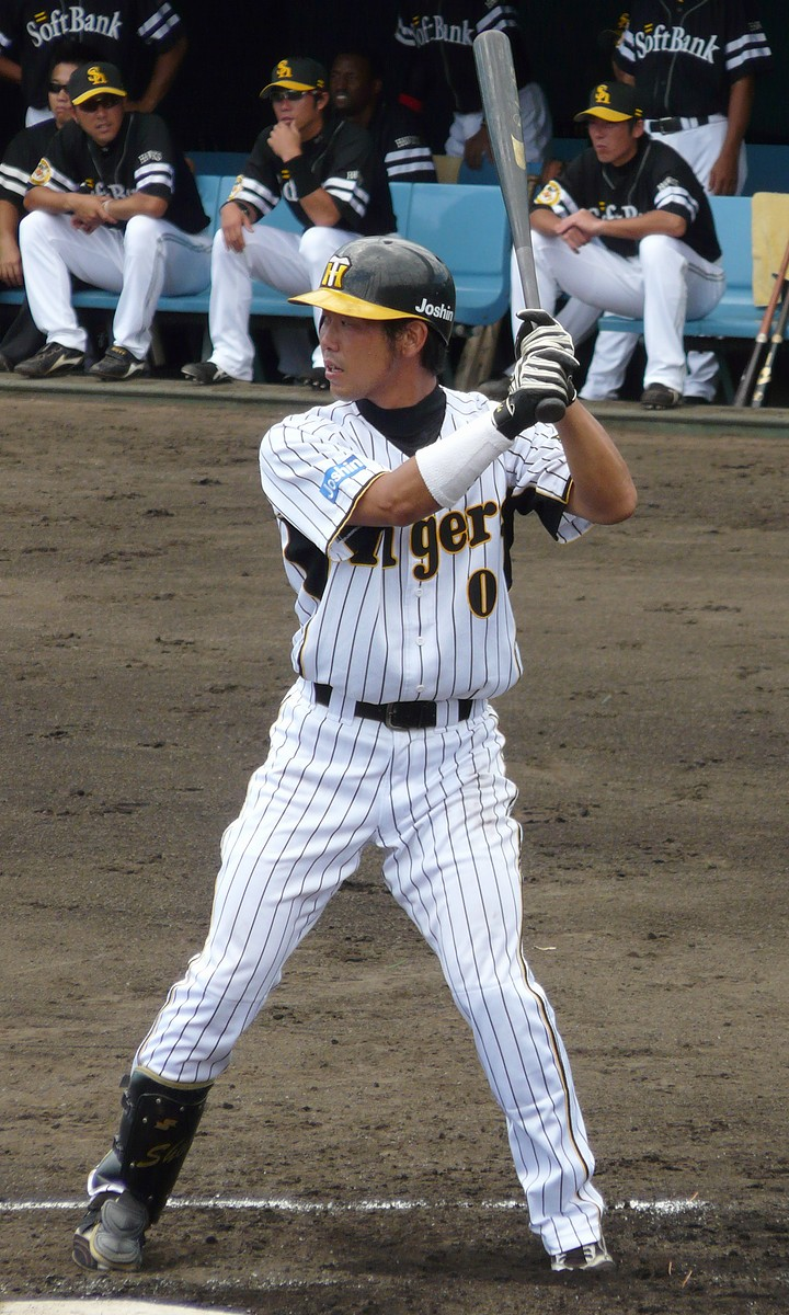 Takahiro Shoda, outfielder of the Hanshin Tigers, at Hanshin Naruohama Baseball Ground.